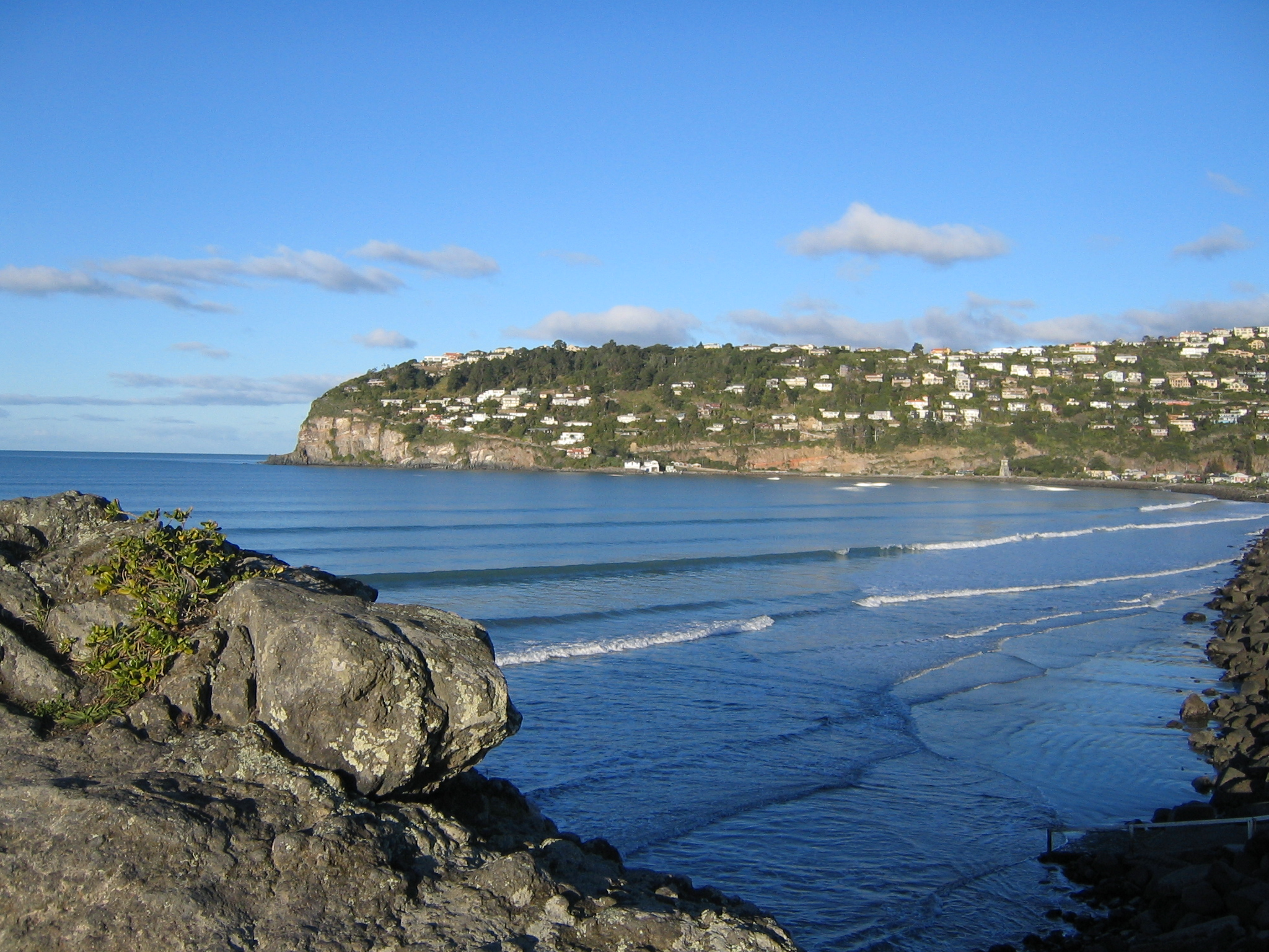 Scarborough Beach from Cave Rock (Tuawera), Christchurch, New Zealand.